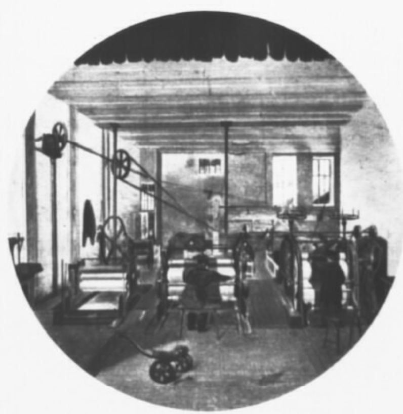 Kronprinsessegade 8 seen on textile manufacturer J. H. Ruben's ceremonial target from the Royal Copenhagen Shooting Socitty.